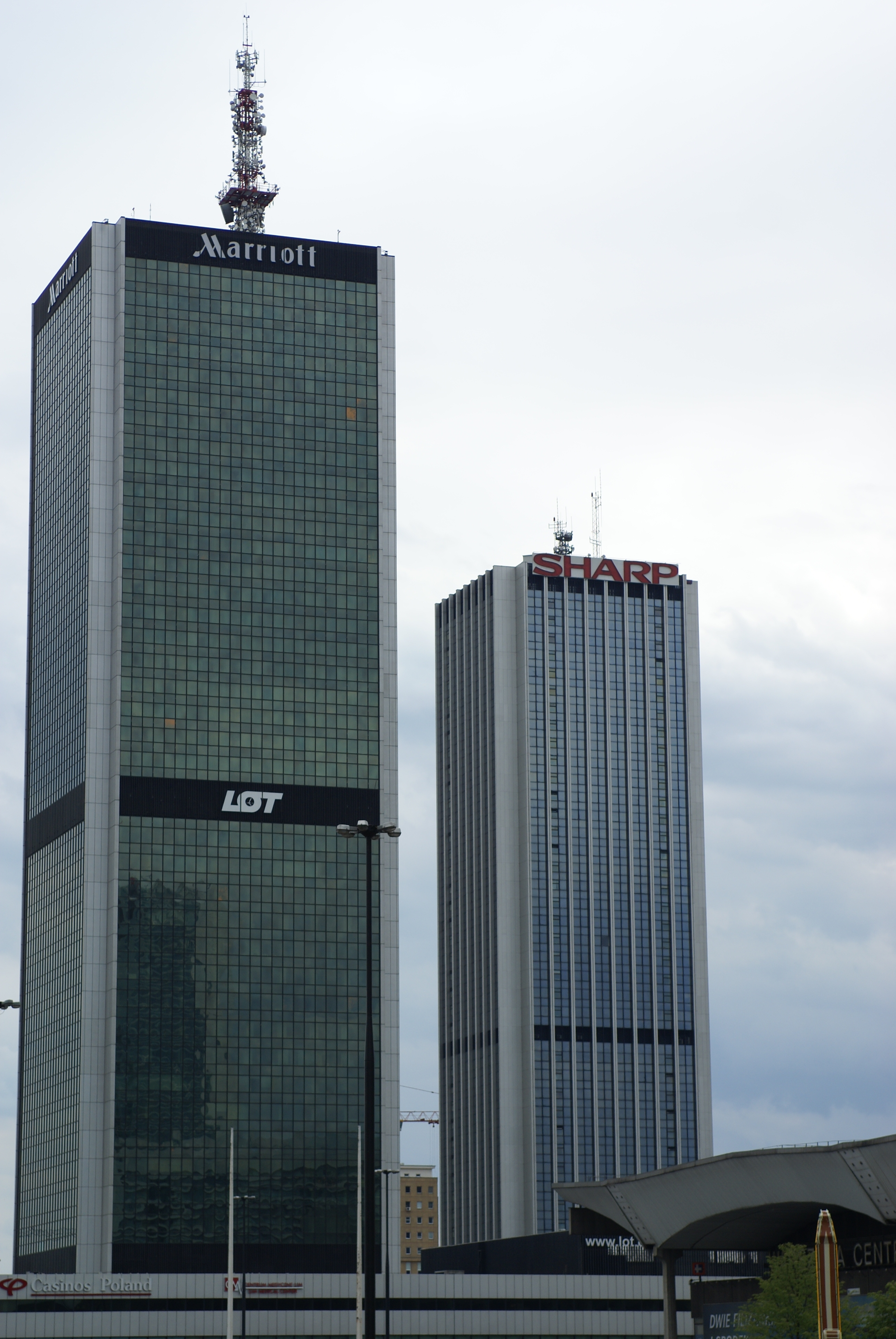 Marriott hotel (left) and Oxford Tower (right), Warsaw, Poland